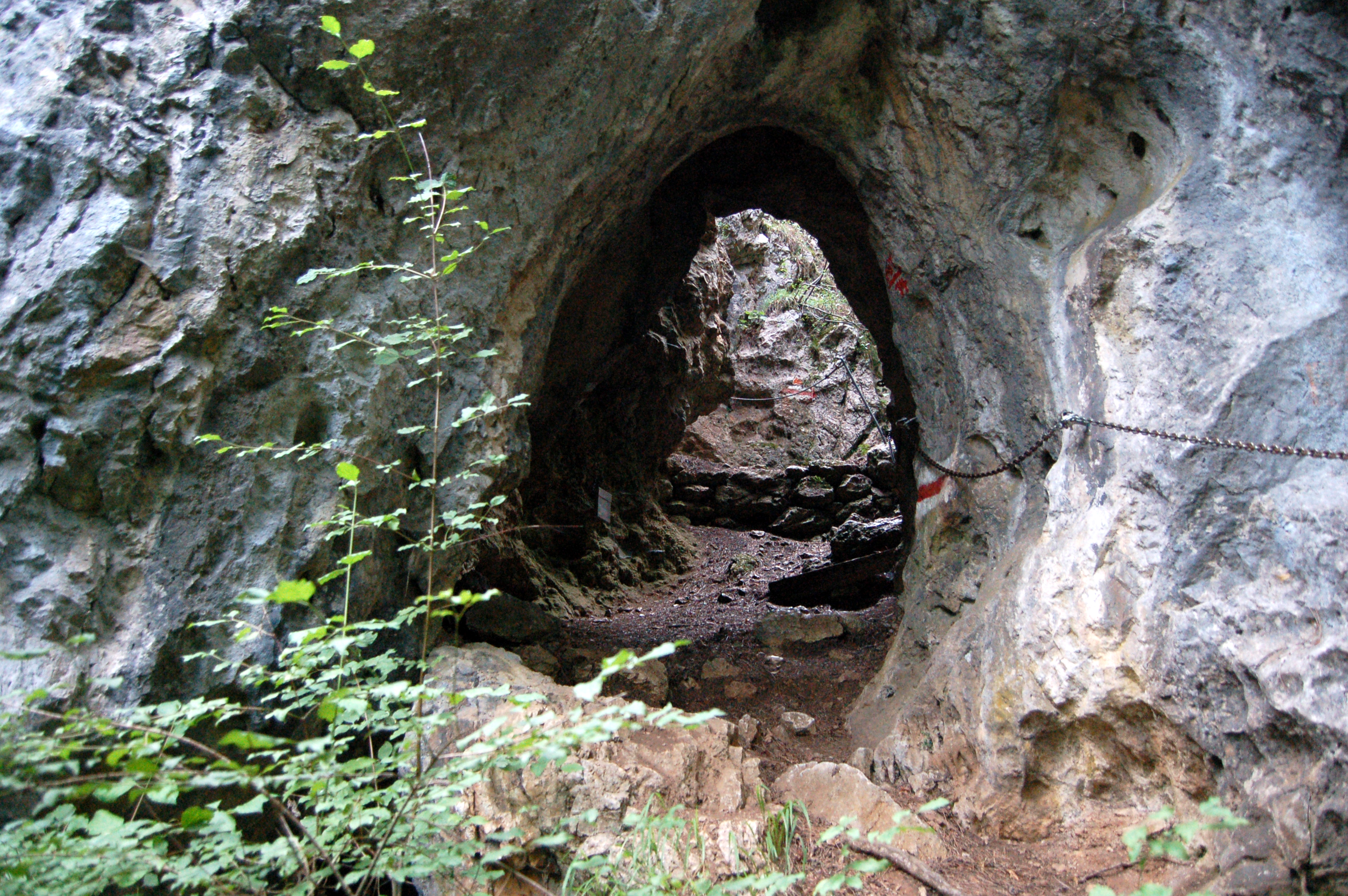 Schiebbogen (1861/14), a cave in the Flatzer Wand, Lower Austria. The Fürststeig, an easy trail, traverses this cave.